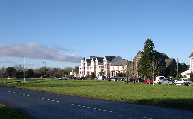 Yelverton. Yelverton is a "crossroads village" situated at the northern edge of Roborough Down. This photograph shows what most people passing through would recognise, the roundabout, wide green, a large hotel and the road to Princetown. There are now many houses hidden away behind the east and west side of the green making Yelverton into quite a substantial village.